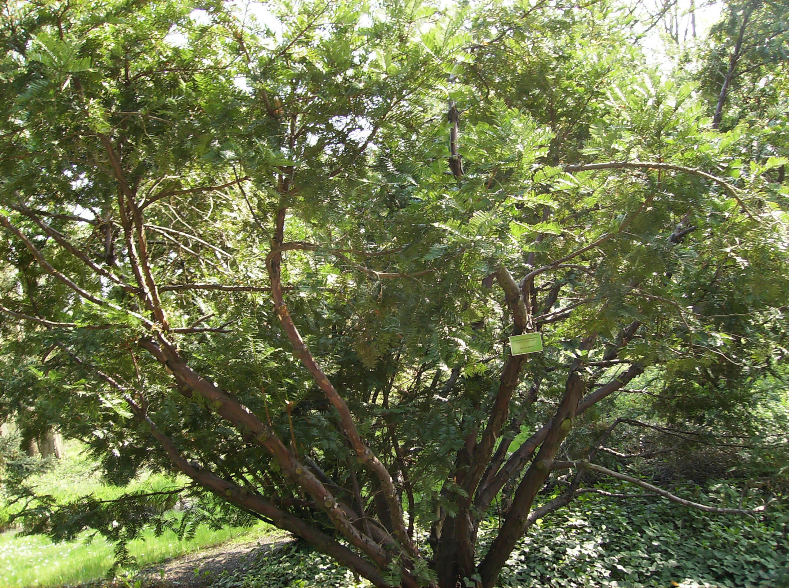 Cephalotaxus harringtonii